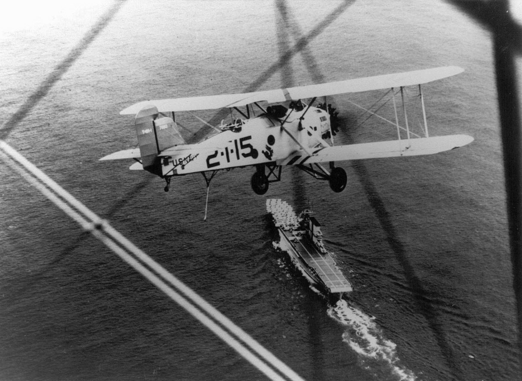 A U.S. Navy Torpedo and Bombing Squadron 2B (VT-2B) Martin T4M-1 making an flying over the aircraft carrier USS Saratoga (CV-3), 1929. Note the squadron's dragon insignia on the fuselage just aft of the lower wing.